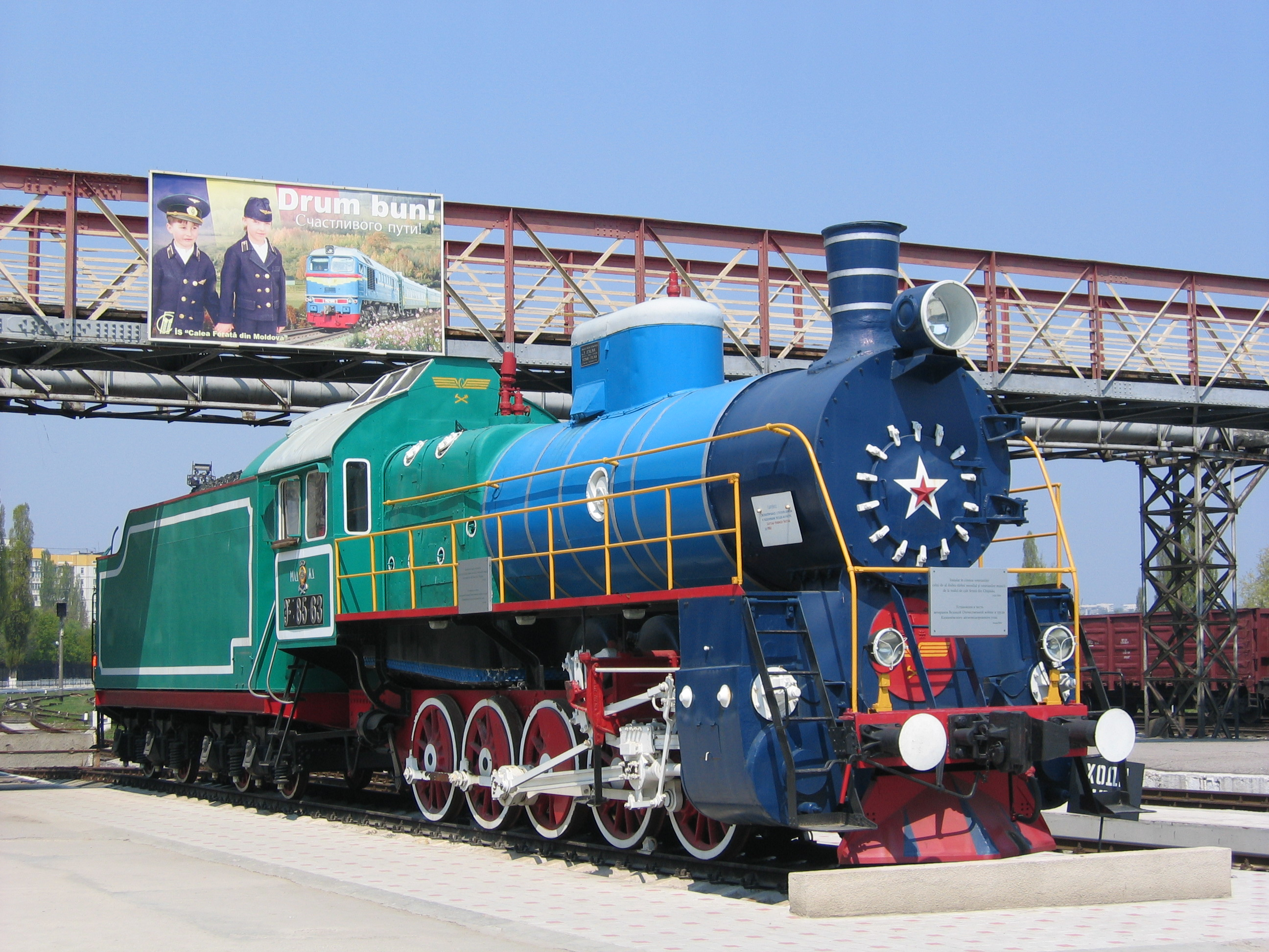 Locomotive Er (Эр) class 785-63, produced under licence in Cegielski Works in Poznań, Poland (then: Stalin Works) in 1949-57, exclusively for the USSR